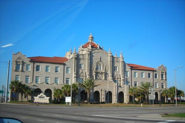 Gulf, Mobile, and Ohio Rail Terminal (1907) in Mobile, Alabama